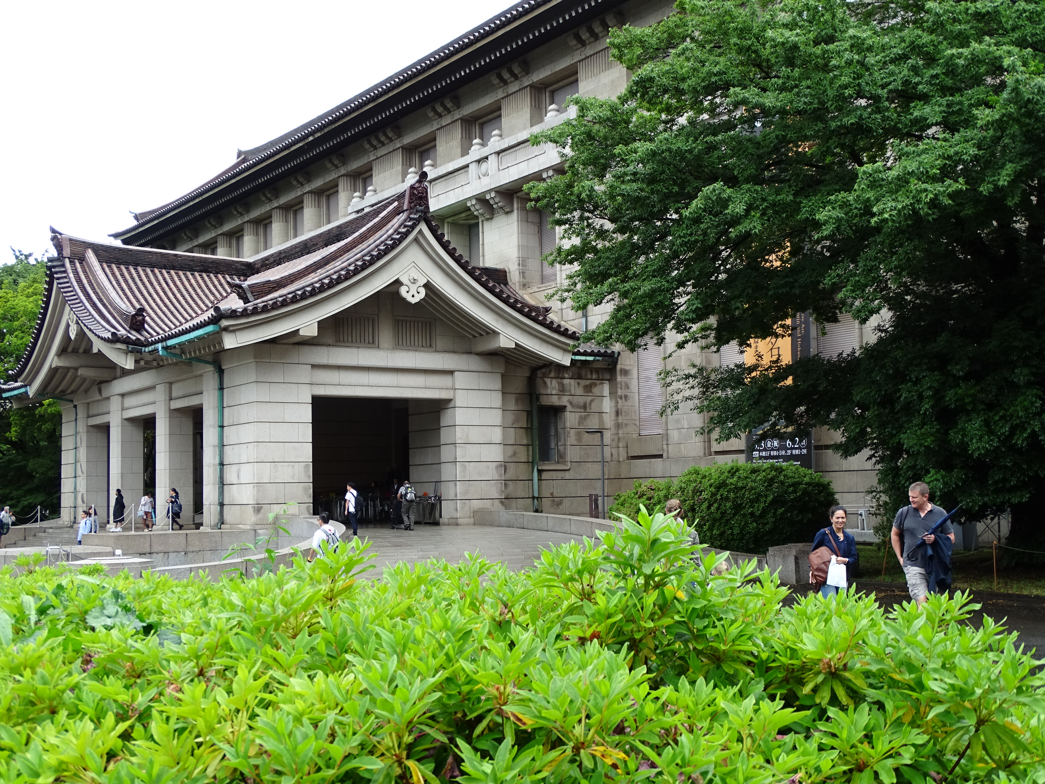 Facade of Tokyo National Museum - Tokyo - Japan